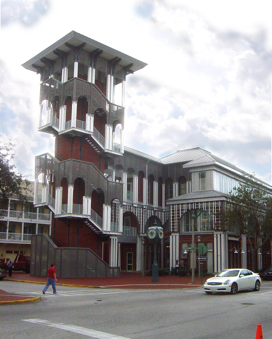 The Bank of America branch, downtown Celebration, Florida: the city designed and planned by The Walt Disney Company. Photo taken by Bobak Ha'Eri. February 23, 2006.